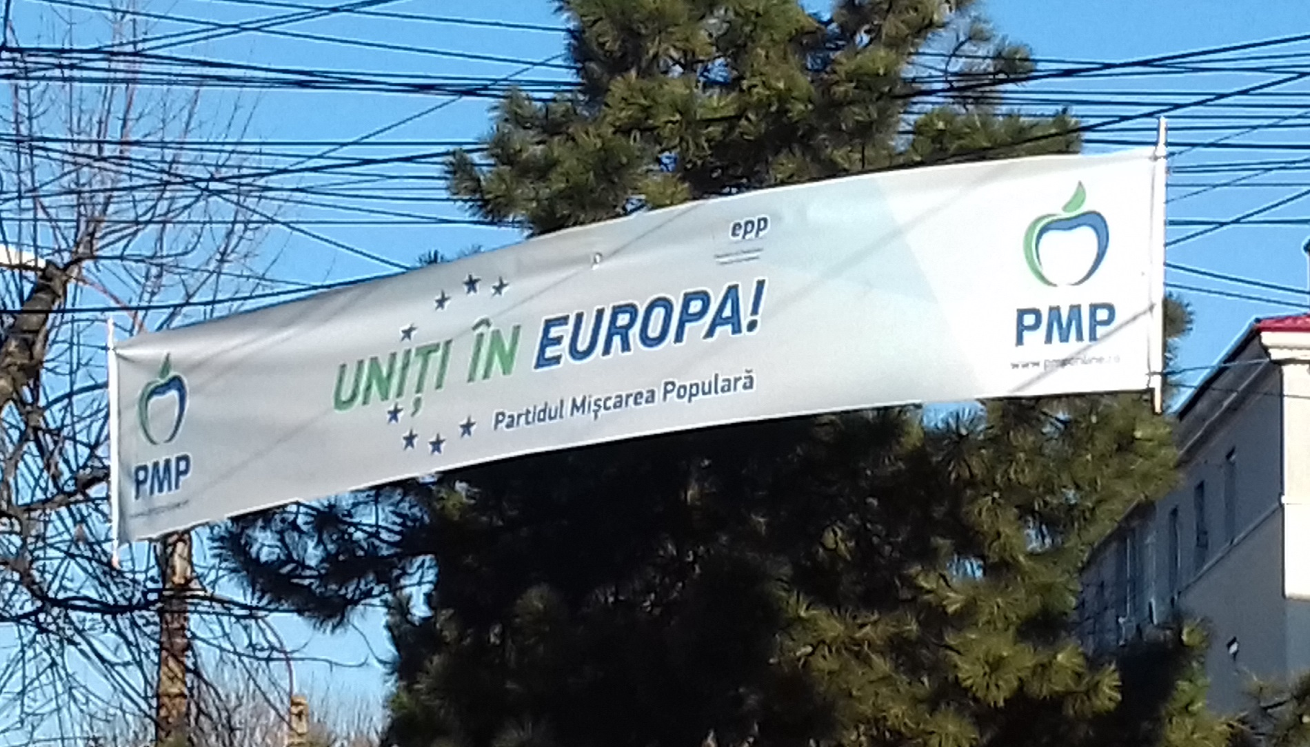 People's Movement Party campaign banner in Bucharest for the 2019 European Parliament election